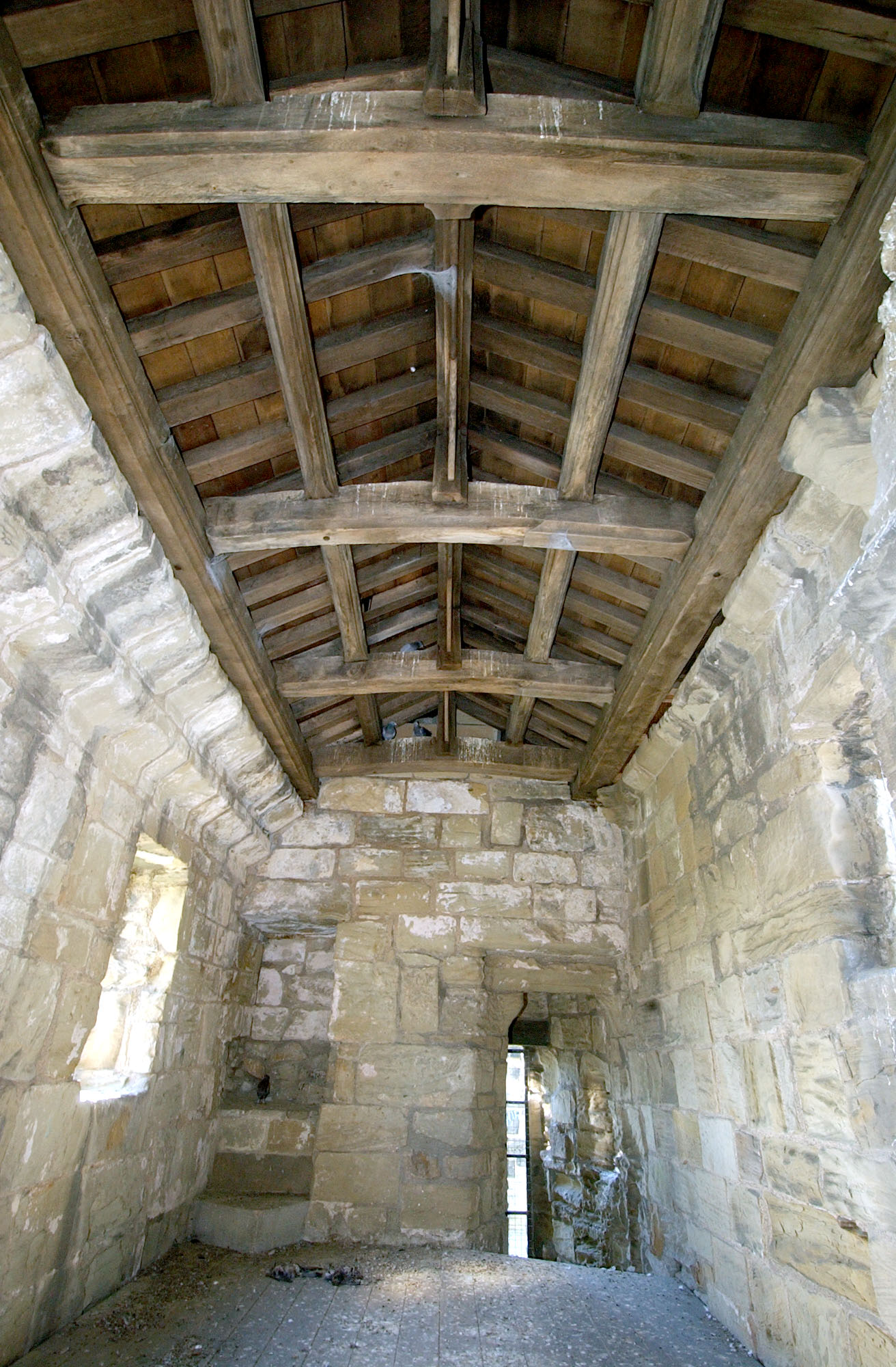 Hylton Castle in Tyne and Wear, England.